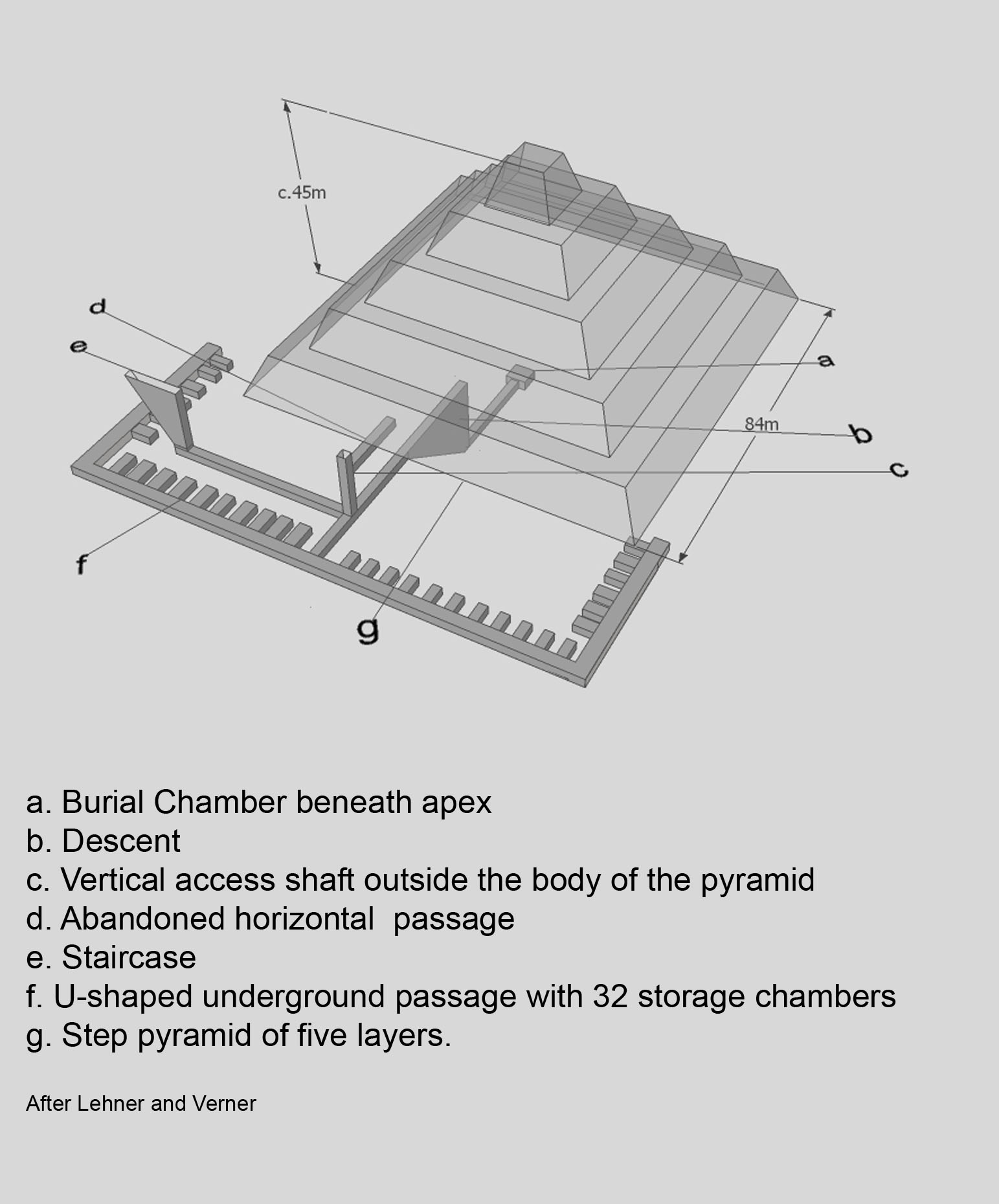 Transparent image taken from a 3d model